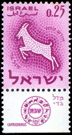 Zodiac I stamp - 0.25 Israeli lira - Sign of Capricornus, Month of Tevet